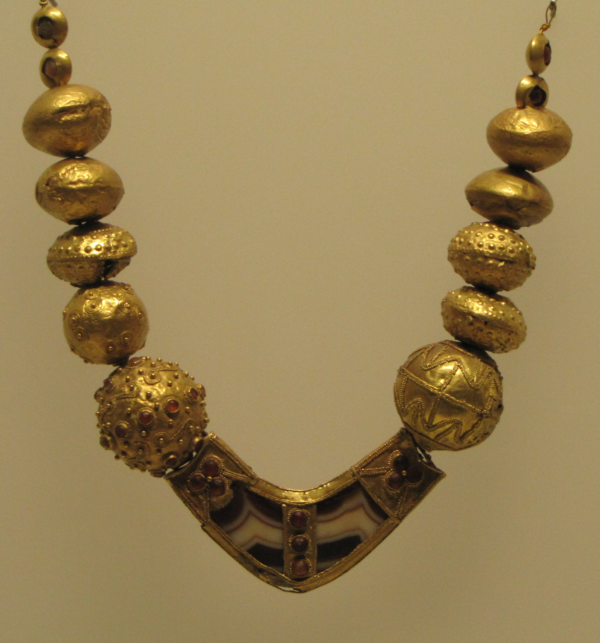 Trialeti gold, agate and cornelian necklace, with thanks to the Georgian National Museum for allowing photography